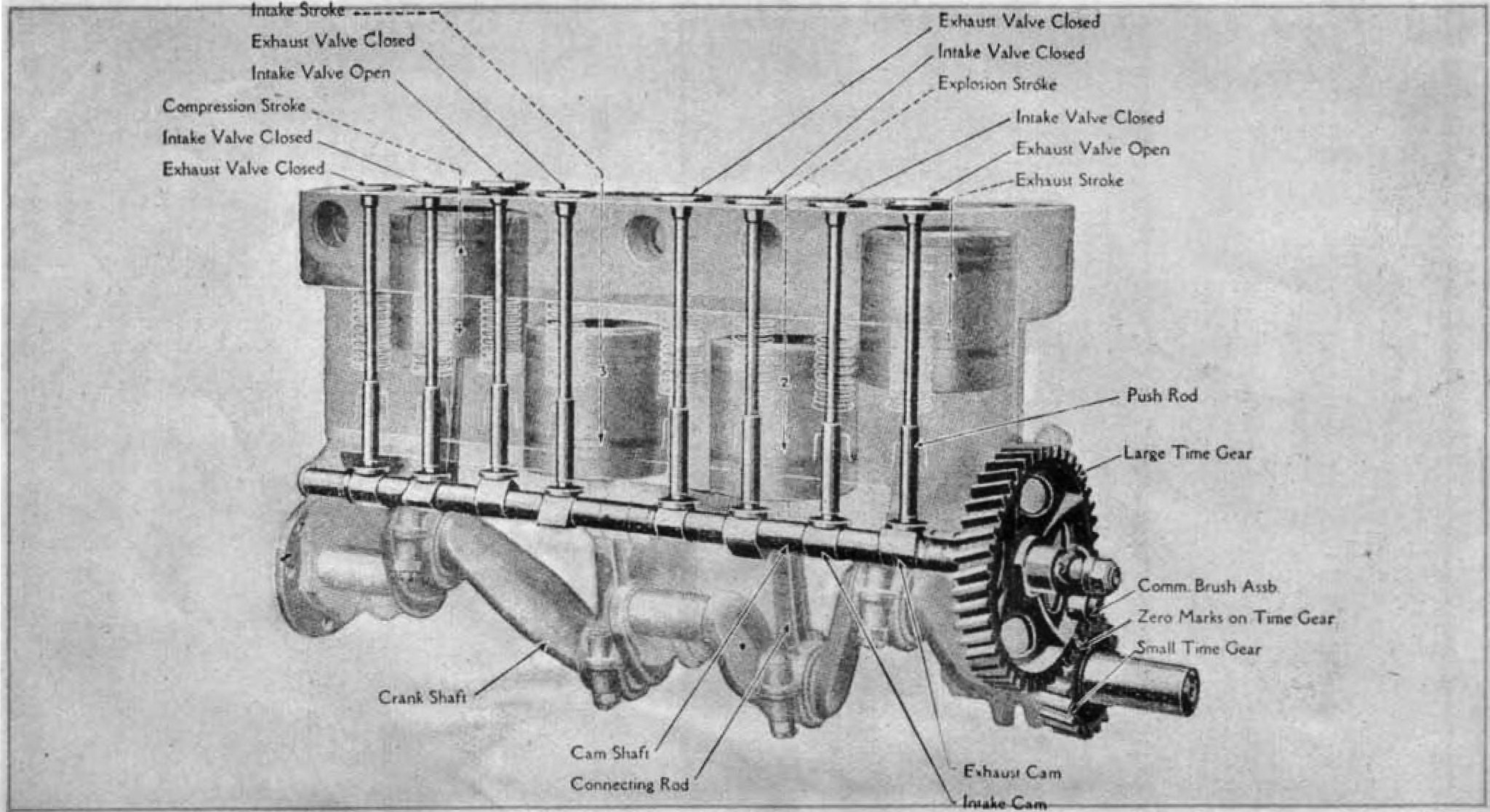 1919 Ford Motor Car and Truck operating manual